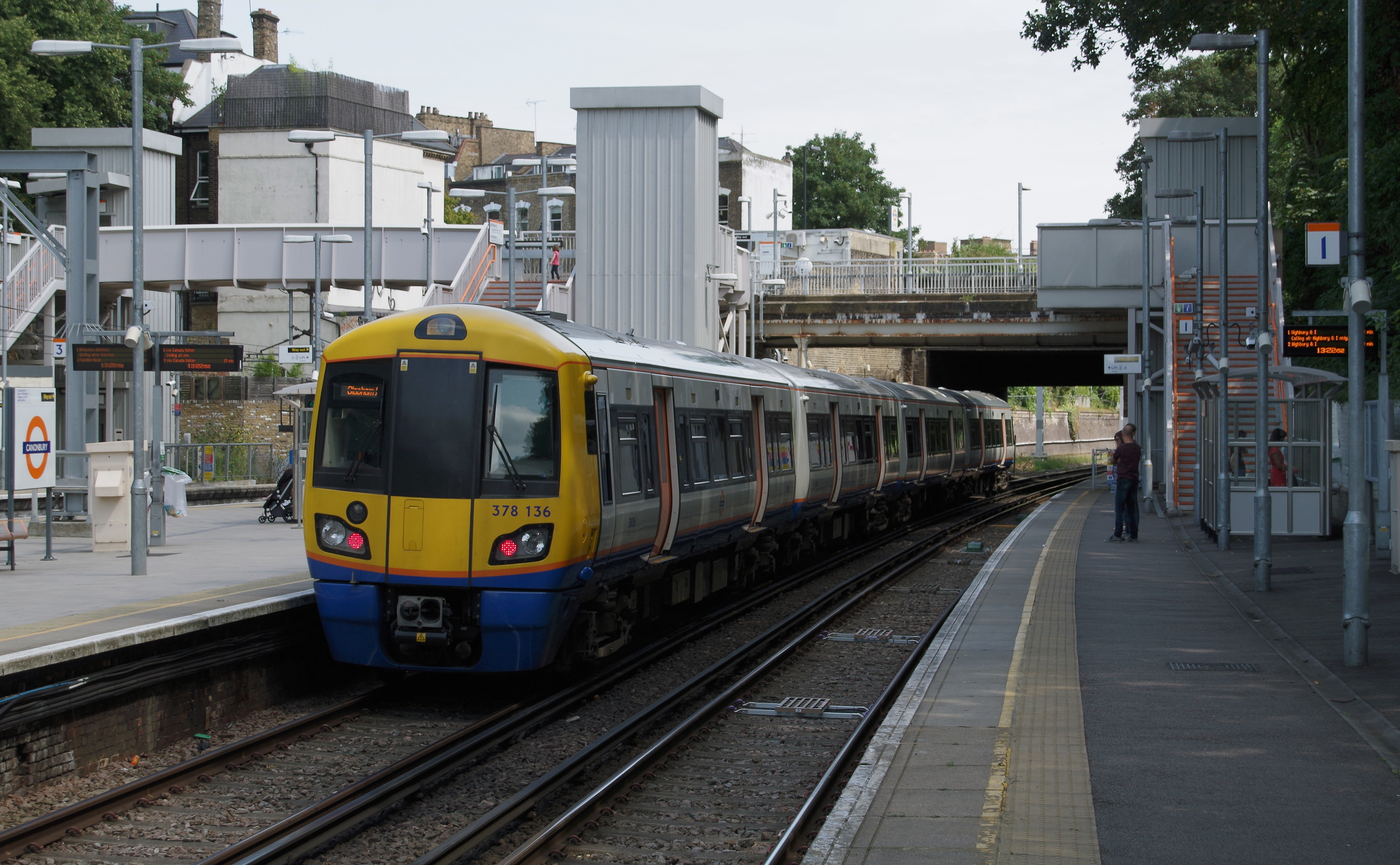 London Overground class 378 "Capitalstar" EMU 378136 departs Canonbury, working a southbound East London Line service from Highbury & Islington.